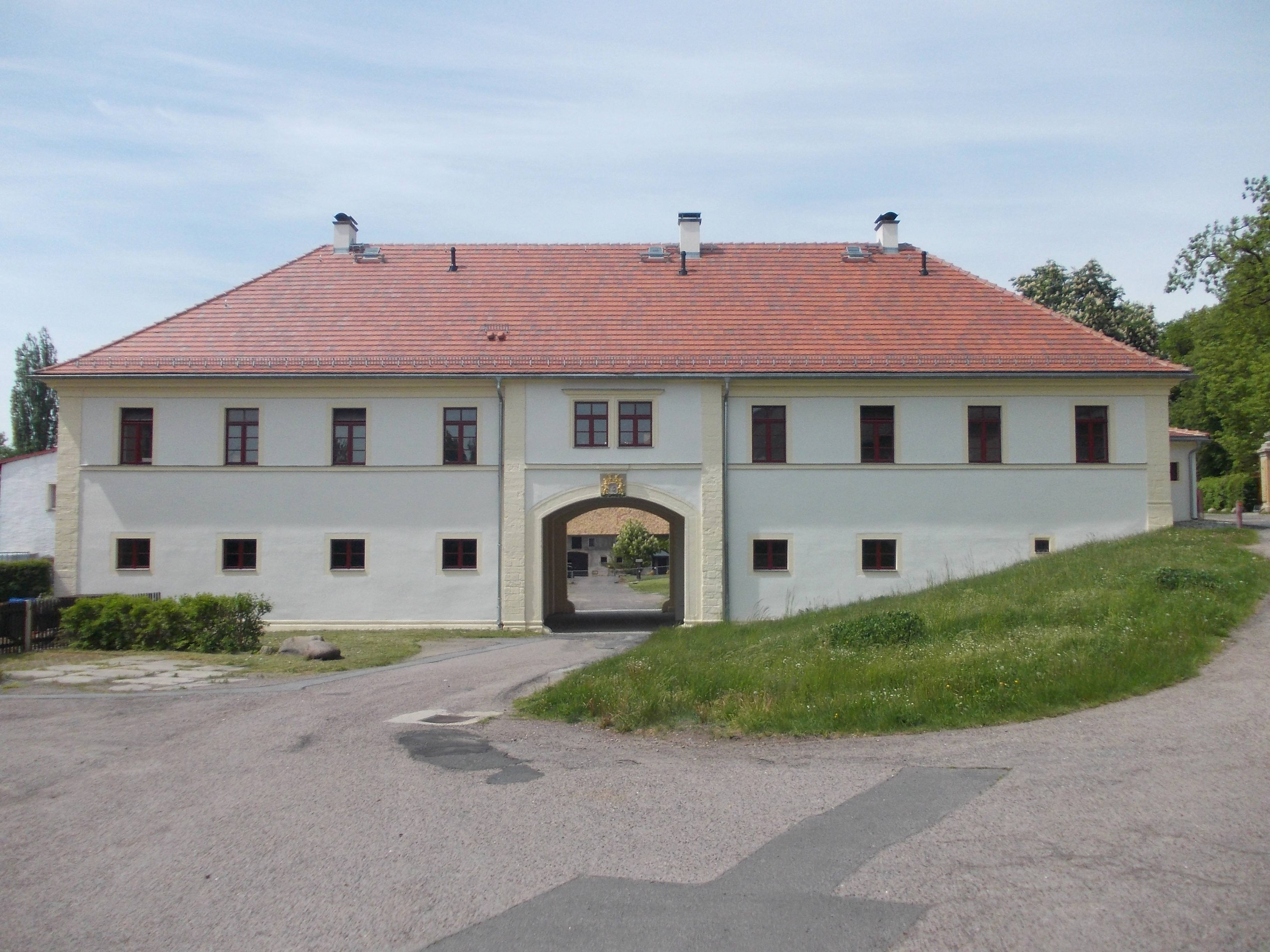 Wendischbora estate (Nossen, Meissen district, Saxony)